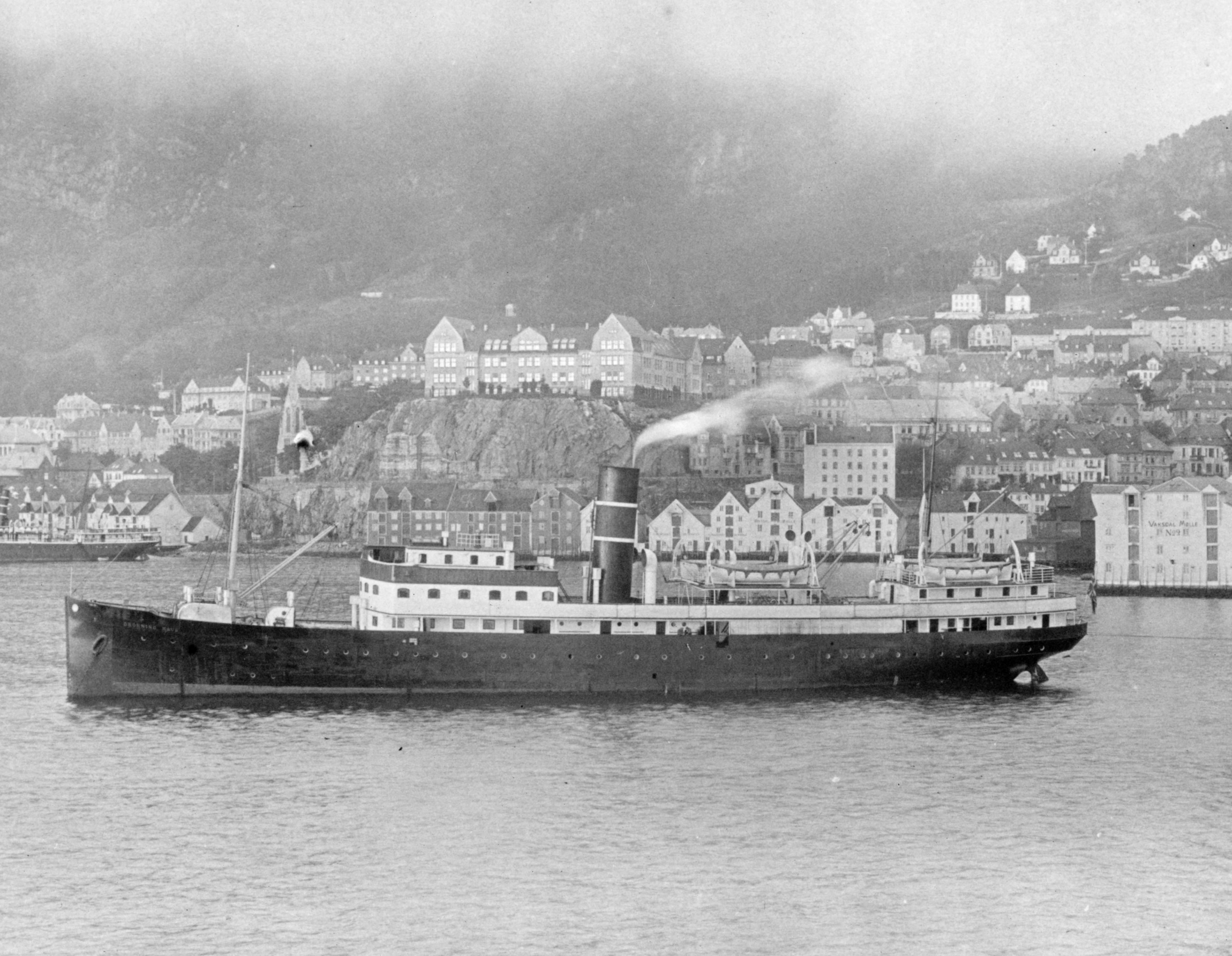 Norwegian steamship Dronning Maud built in 1925.